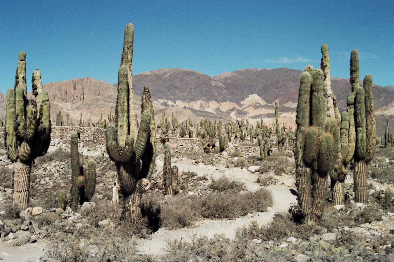 Pucara of Tilcara